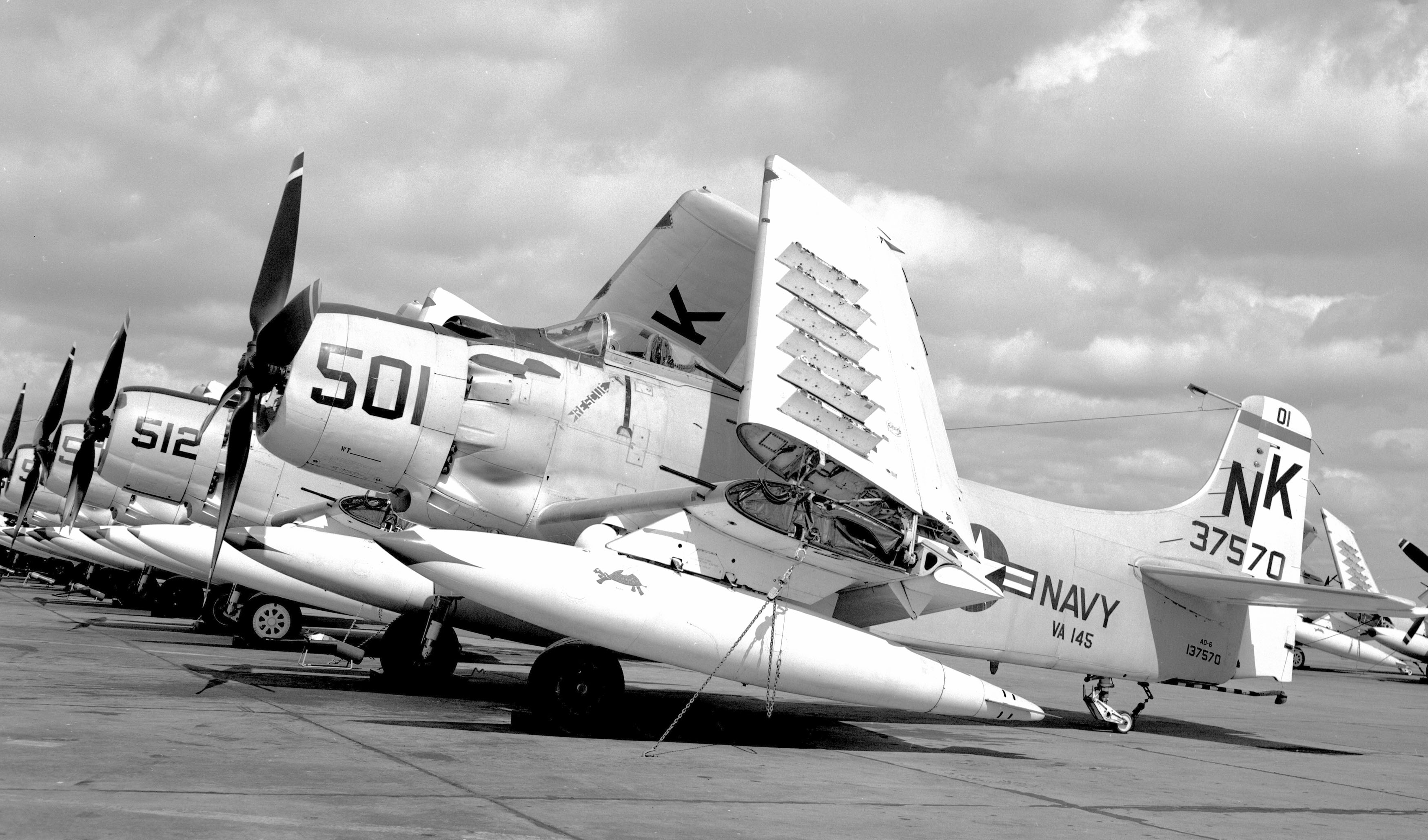 Moffett Field May 1962. The winged turtle (Shellback) denotes that the plane has flown across the equator....unless it is a tank off another plane!